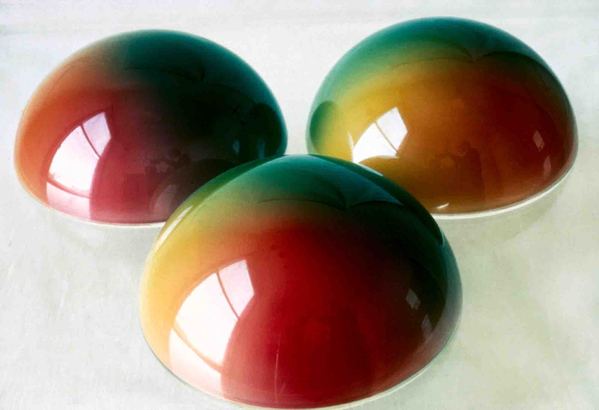 Domes #1, work of art by the the American artist Judy Chicago. Medium: Sprayed acrylic lacquer inside clear acrylic domes